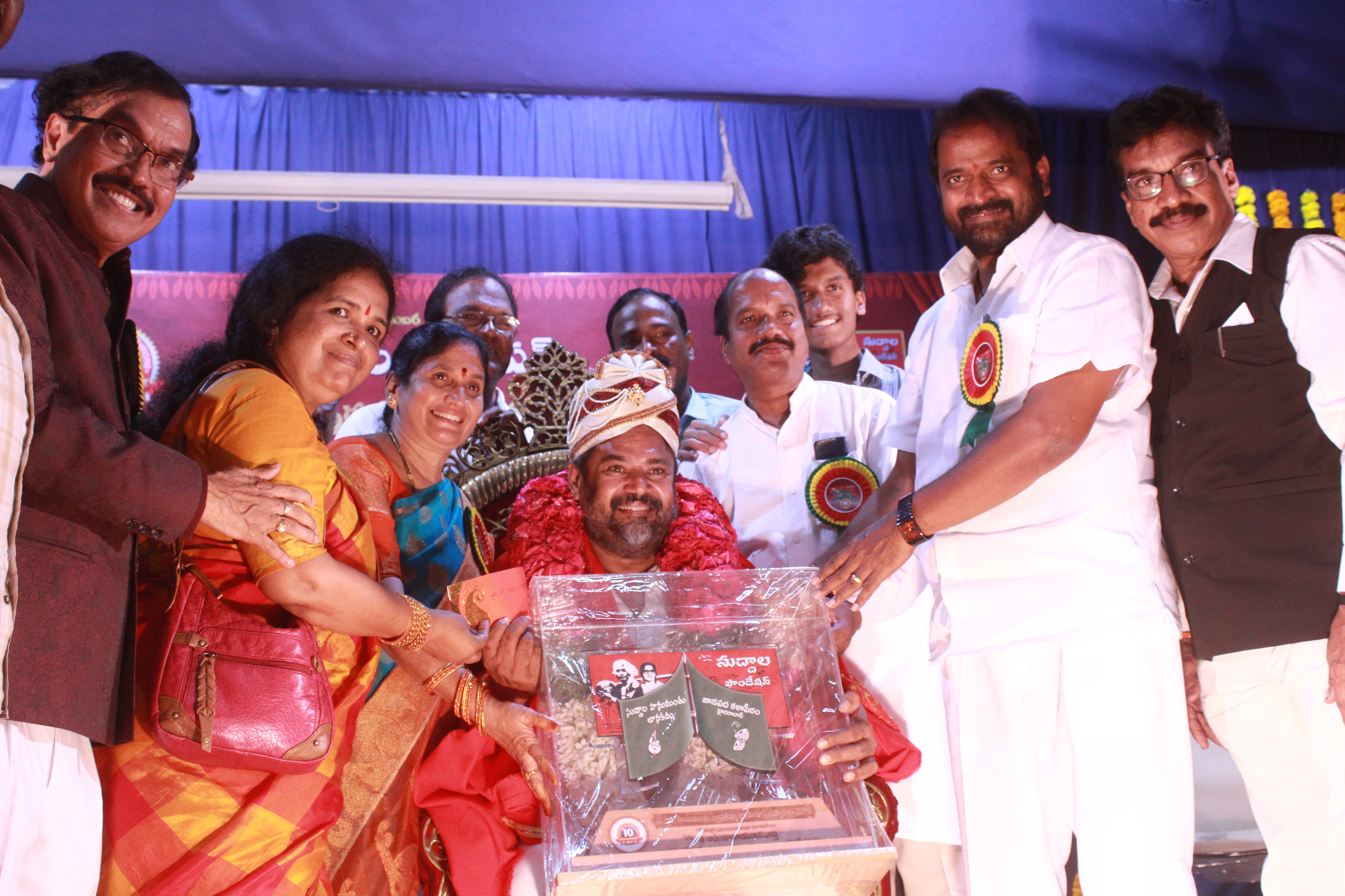 R Narayanamurthy 2019 Suddala Hanumanthu Janakamma Award